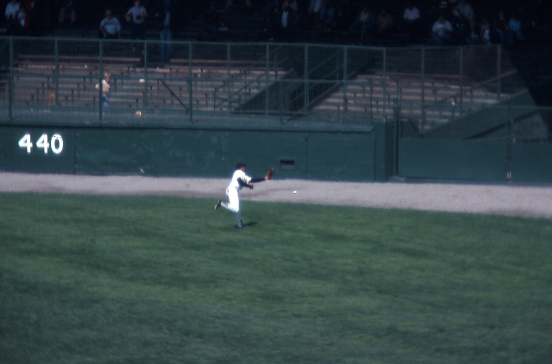 photo by Einar Einarsson Kvaran aka Carptrash 00:41, 24 December 2006 (UTC). Ron LeFlore in Tiger Stadium, 1977